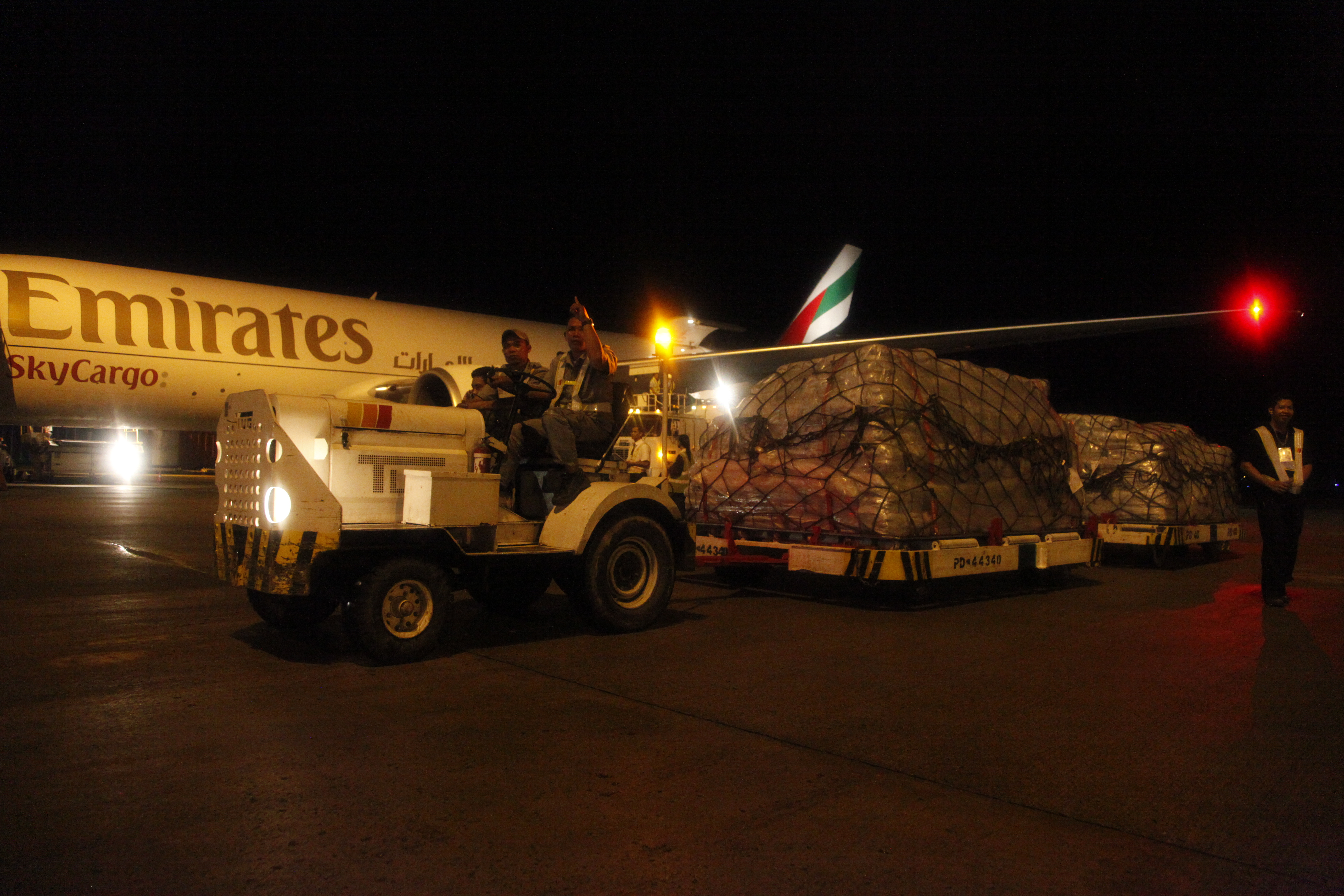 A Boeing 777, capacity 100 tonnes, has flown from Dubai to Cebu carrying 8,000 shelter kits. The shelter kits consist of plastic sheeting, rope and rope tensioners, and each one will keep a family of five sheltered from the elements. The flight landed at roughly 6.30pm UK time. The shelter kits will now be delivered to World Vision for distribution in the worst-affected areas of the Philippines. This is the first of several UK-funded humanitarian flights scheduled to fly from both Dubai and the UK in the coming days as part of the UK’s response to Typhoon Haiyan. The total UK response to the typhoon stands at up to £15m, following today’s announcement that the Government will match-fund up to £5m of the DEC appeal. The UK has also deployed HMS Daring to support aid efforts. Get the latest on UK aid for Typhoon Haiyan: Picture: Simon Davis/DFID